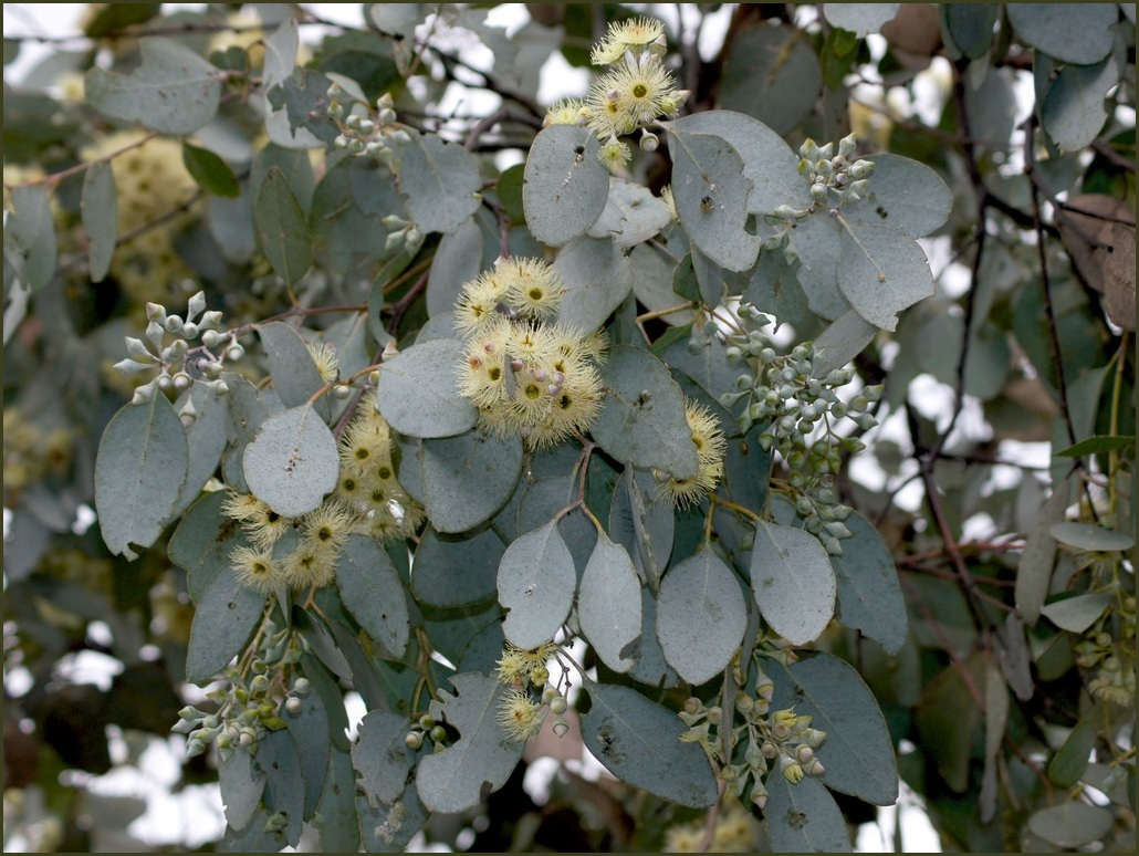 Tentative ID: Eucalyptus melanophloia